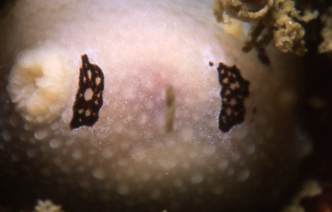 photograph of the spotted spots of the nudibranch Aldisa trimaculata taken on the Atlantic side of the Cape Peninsula off the South African coast in 30m of water, using a Nikonos V camera